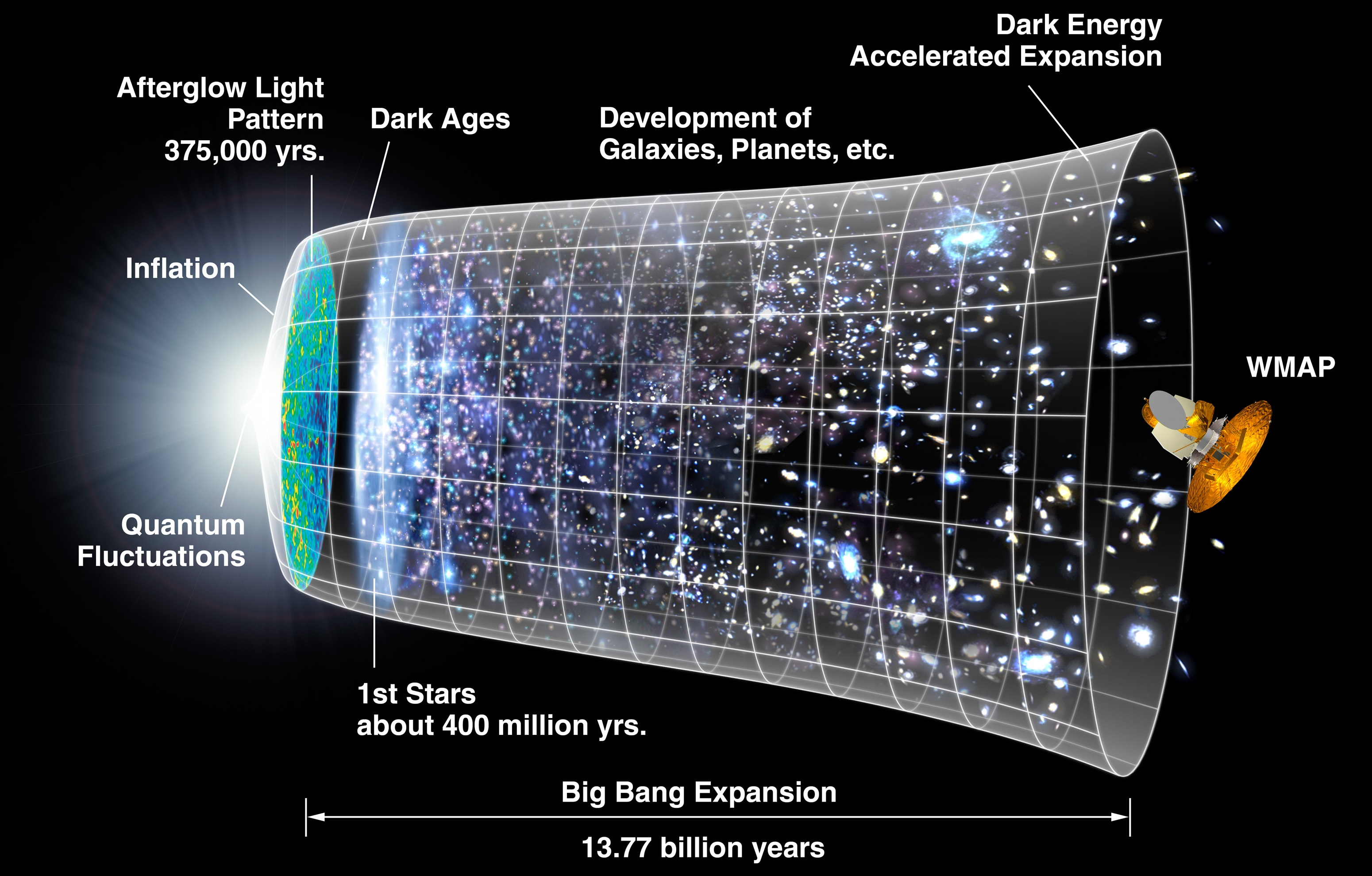 A representation of the evolution of the universe over 13.77 billion years. The far left depicts the earliest moment we can now probe, when a period of "inflation" produced a burst of exponential growth in the universe. (Size is depicted by the vertical extent of the grid in this graphic.) For the next several billion years, the expansion of the universe gradually slowed down as the matter in the universe pulled on itself via gravity. More recently, the expansion has begun to speed up again as the repulsive effects of dark energy have come to dominate the expansion of the universe. The afterglow light seen by WMAP was emitted about 375,000 years after inflation and has traversed the universe largely unimpeded since then. The conditions of earlier times are imprinted on this light; it also forms a backlight for later developments of the universe. (WMAP # 060915)